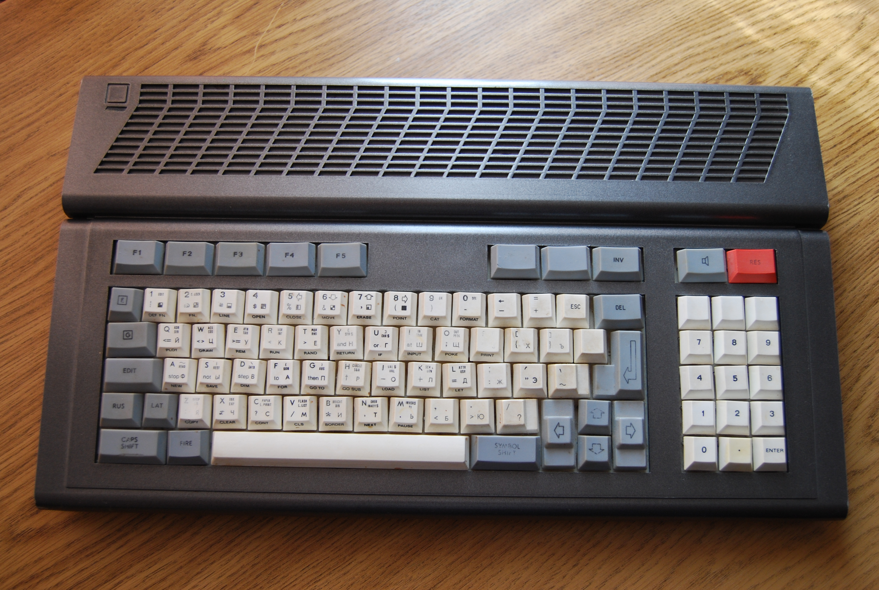 "Kompanion-2" home computer.